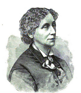 Zerelda Gray Wallace